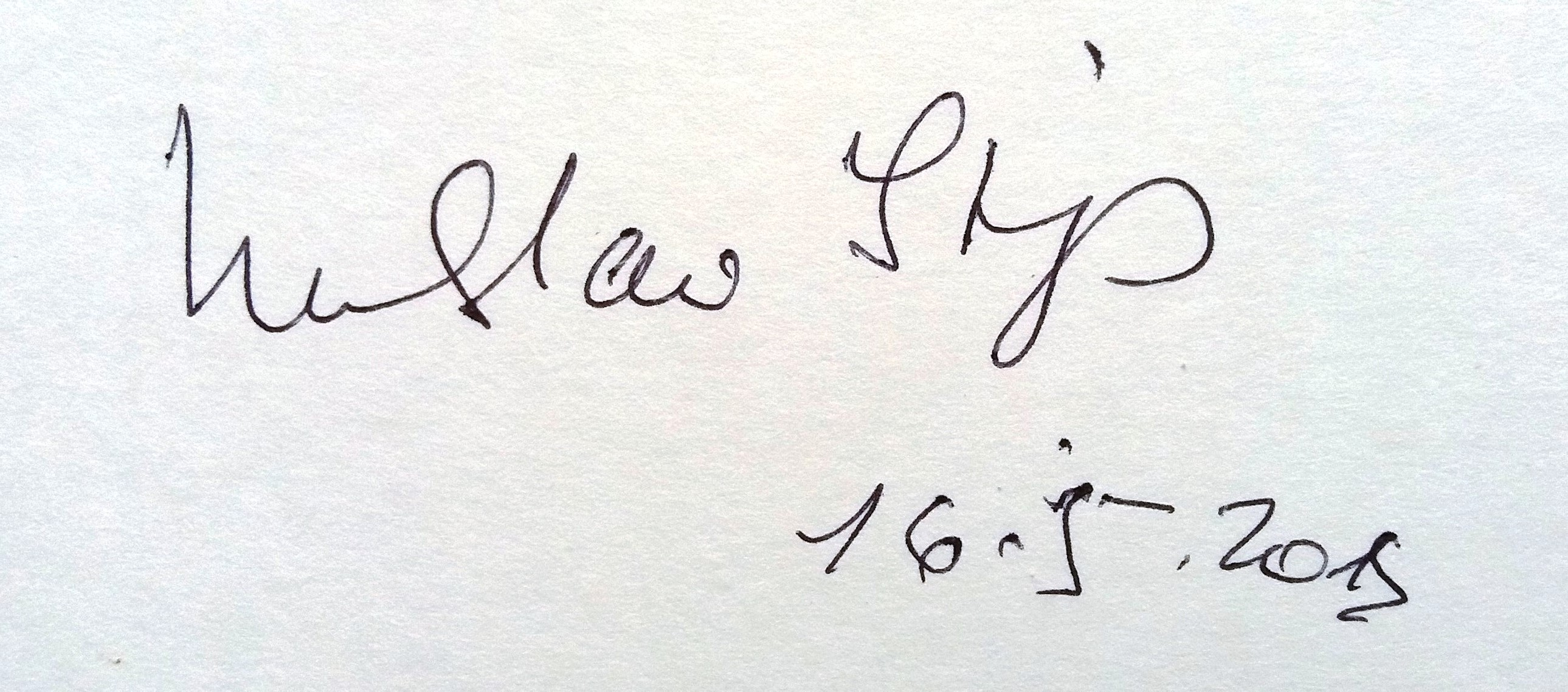 Signature of Miloslav Stingl, Czech traveler and writer